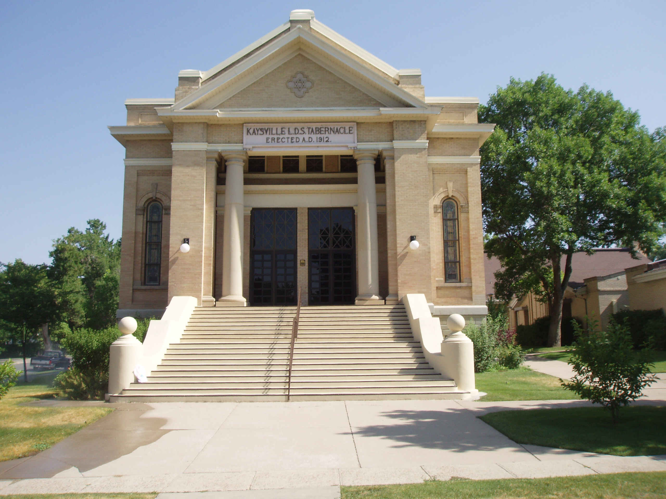 The Kaysville Tabernacle, an early Latter-day Saint meetinghouse in Kaysville, Utah, United States.